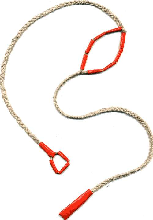 Ragzouken made this sling himself using braiding methods from Braided string and red insulation tape. Scan, not photo.